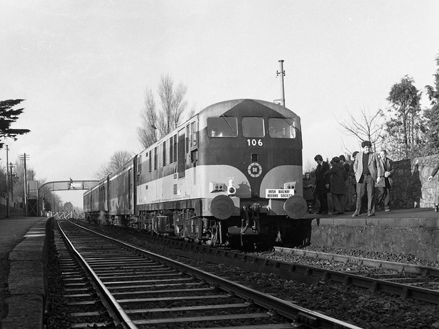 Hauled by a CIE B101 class locomotive, a special train for the Irish Railway Record Society stops at Sydney Parade station.